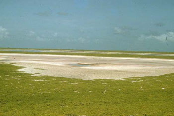 View of lagoon across sections that are drying up. Enderbury Island, Phoenix Islands, Kiribati. Original field notes: Enderbury is a small, oblong island, ~3 X 1 miles. The completely land-locked lagoon is supersaline and shallow, its size dependant upon any rains that might fall.